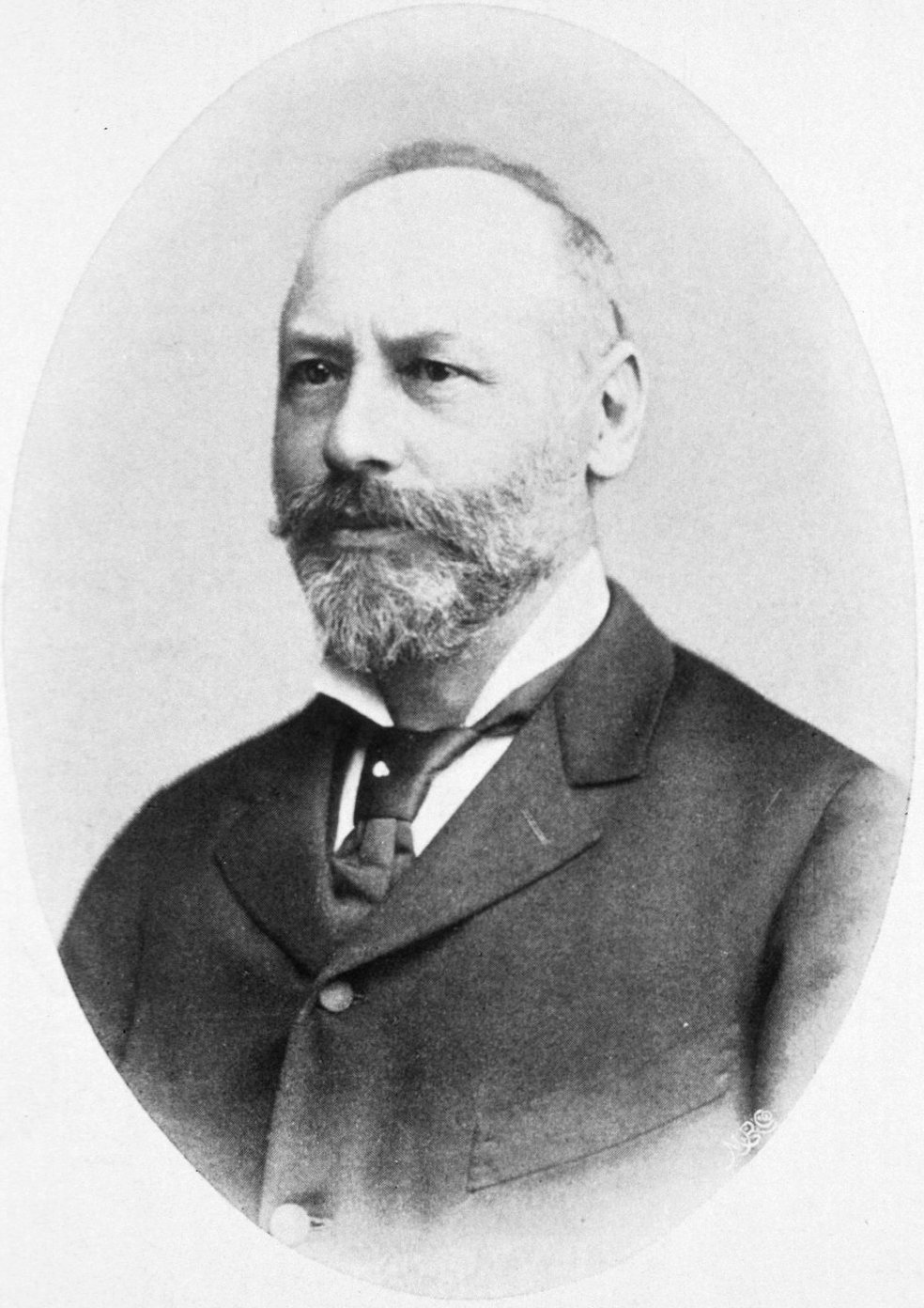 Moriz Kaposi